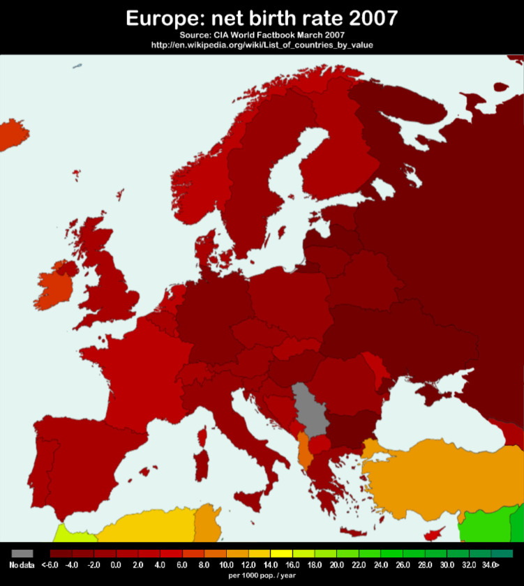 Europe net birth rate 2007. Figures taken from CIA World Factbook March 2007 [1]. World map colorized with a custom colorizing script.